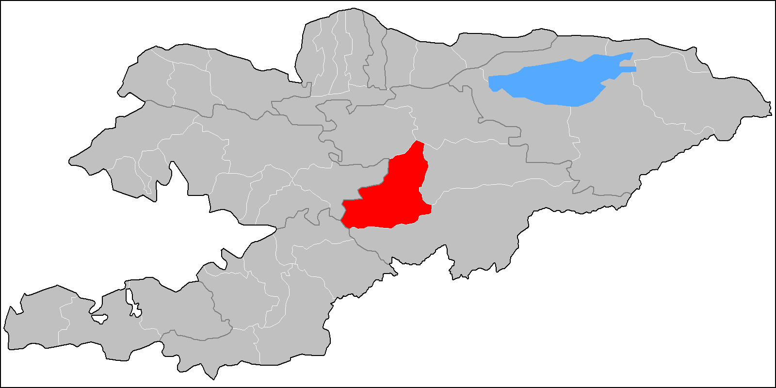 The location of the raion (district) of Ak-Talaa in Kyrgyzstan. Based on Image:Kyrgyzstan raions.png